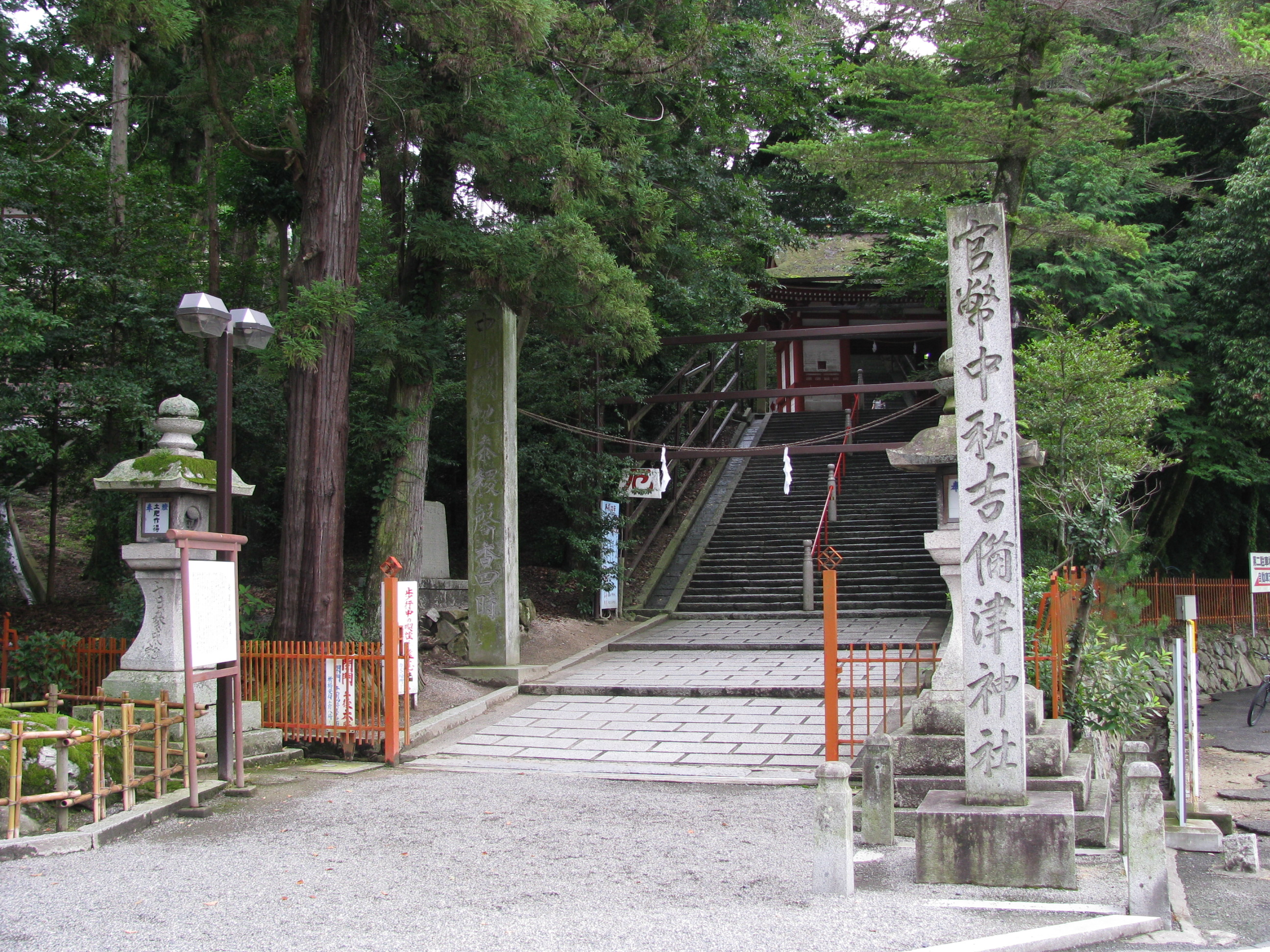 The Kibitsuhiko jinja is Shinto shrine in Kita-ku, Okayama, Okayama Prefecture, Japan.